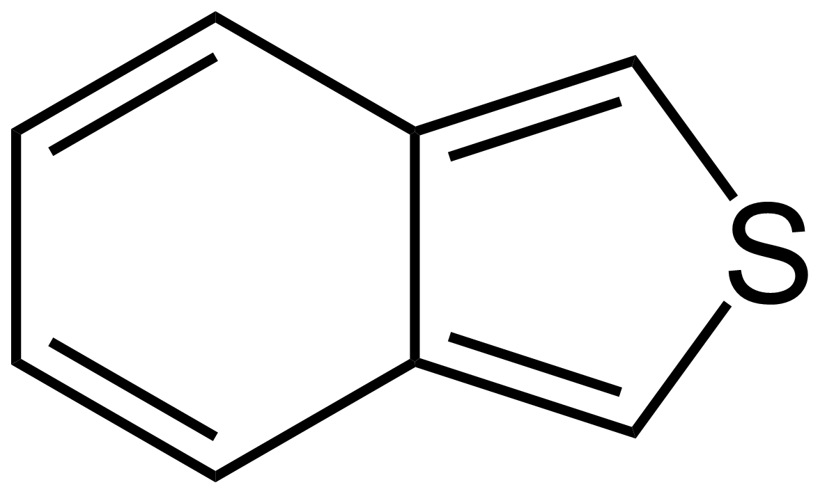 Chemical structure of benzo-c-thiophene